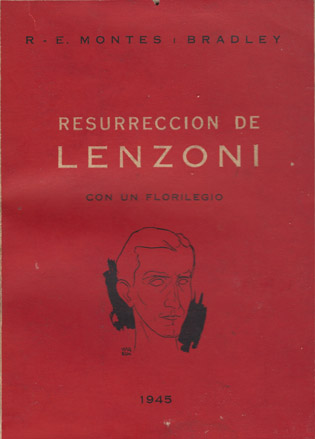 Cover to the first and presumably only edition of Ressurreccion de Lenzoni by R-E Montes i Bradley in Rosario, Argentina. 1945. 134pp